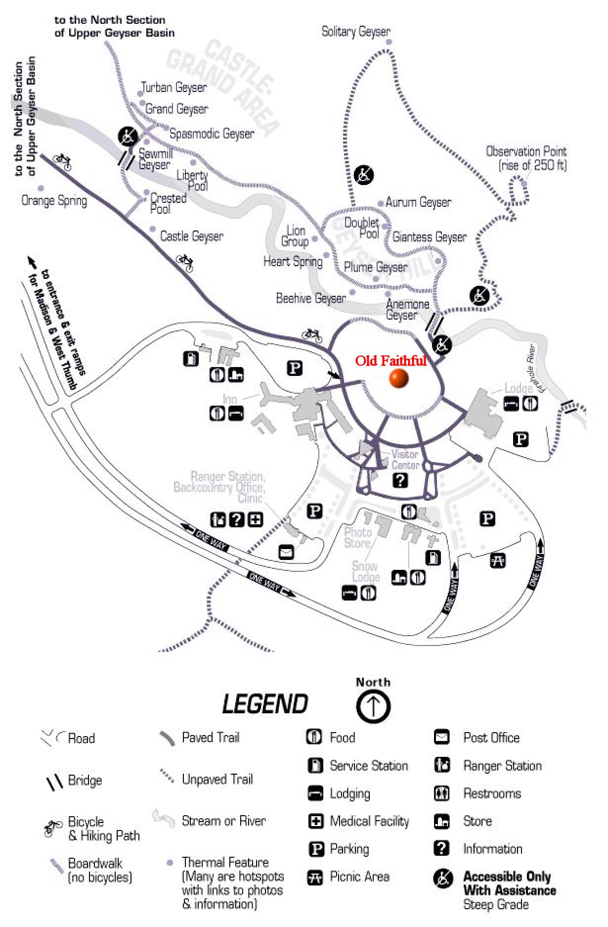 Map of Upper Geyser Basin, Yellowstone National Park, with Old Faithful annotated